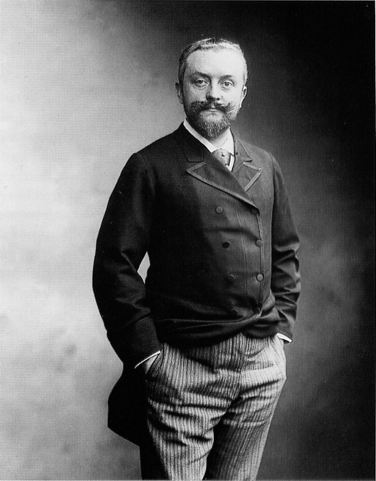 Paul Nadar, 1888